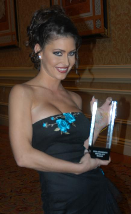 Pornographic actress Jessica Jaymes.